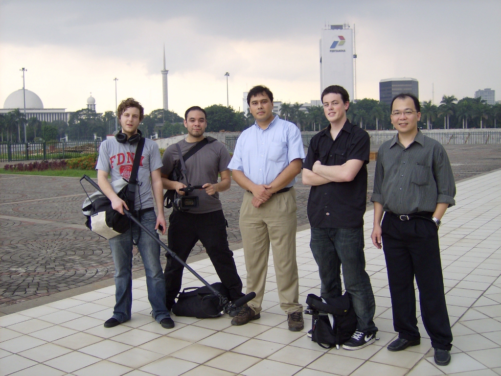 From left to right: Adam Hazard - Wikipedia documentary crew John Murillo - Wikipedia documentary crew Revo Arka Giri Soekatno (Meursault2004) - founder and bureaucrats of Indonesian Wikipedia Nic Hill - Wikipedia documentary crew Stanley W (Borgx) - bureaucrats of Indonesian Wikipedia